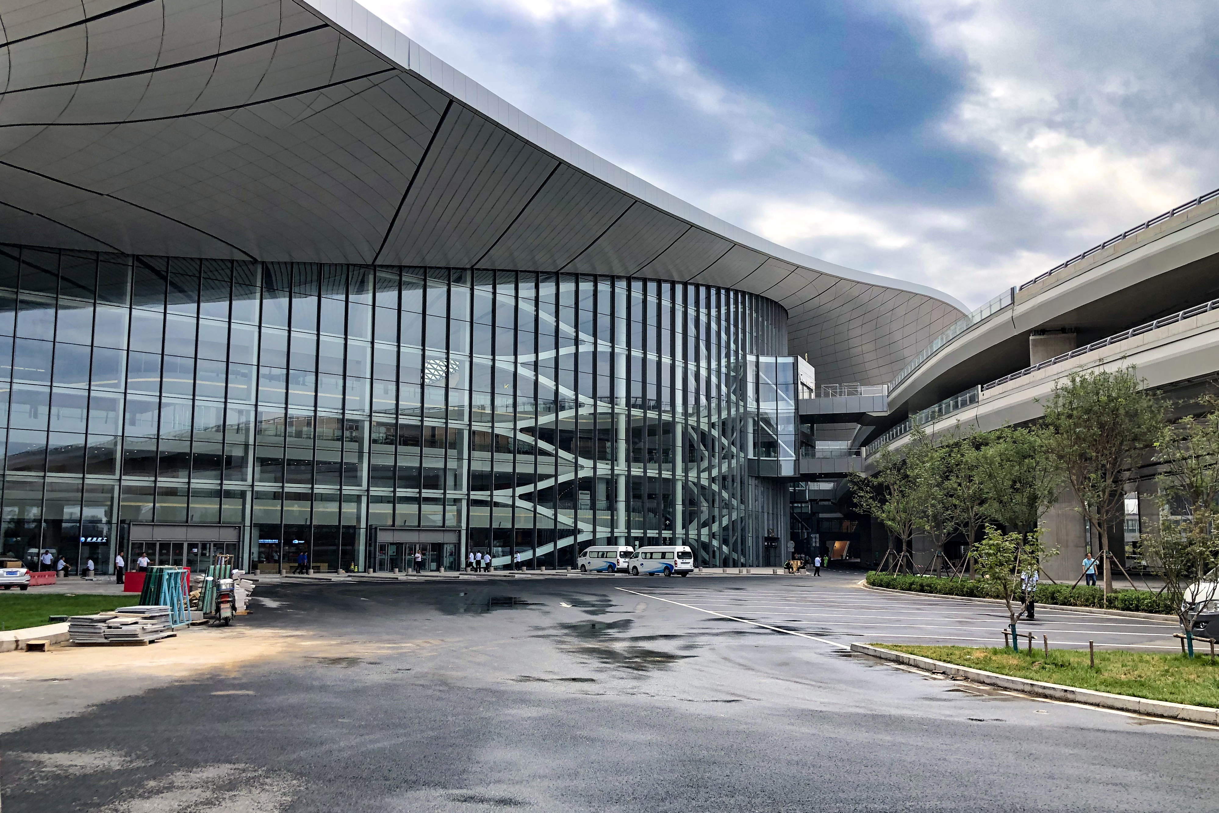 For local buses.